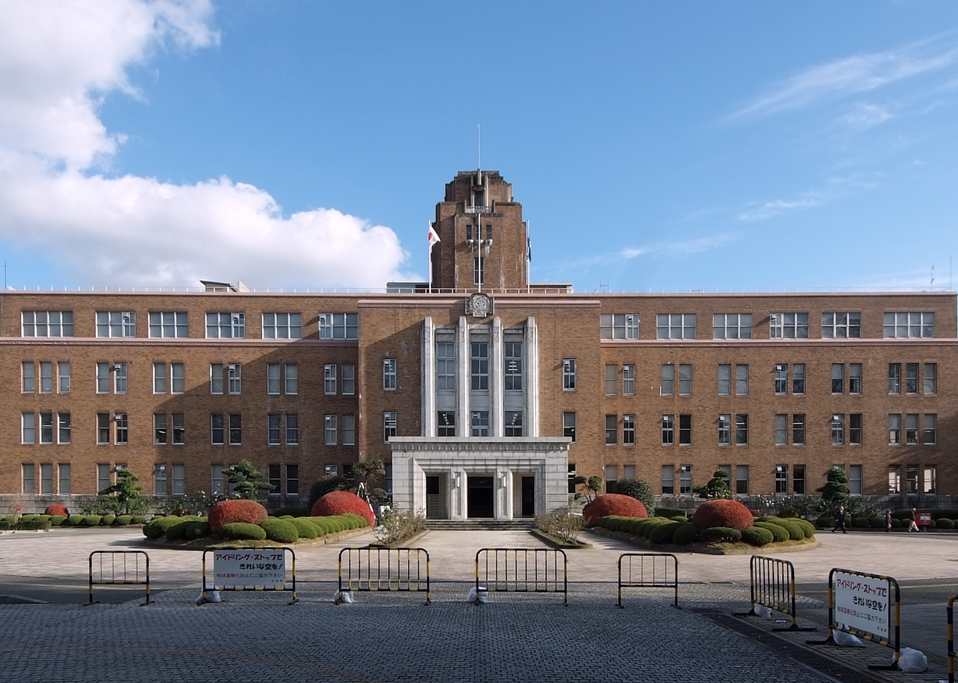 Former ibaraki prefectual office, mito ibaraki japan, designed by Akira Oshio in 1930.